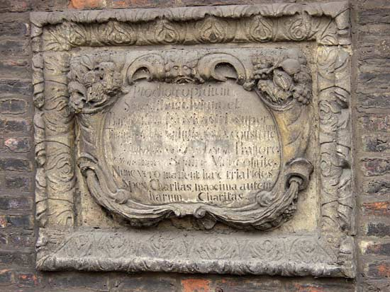 Plaque bearing a Latin description on the Holy Jesus Hospital in Newcastle-Upon-Tyne, England.